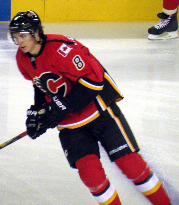 Calgary Flames forward Joe Colborne prior to a National Hockey League game in Calgary.